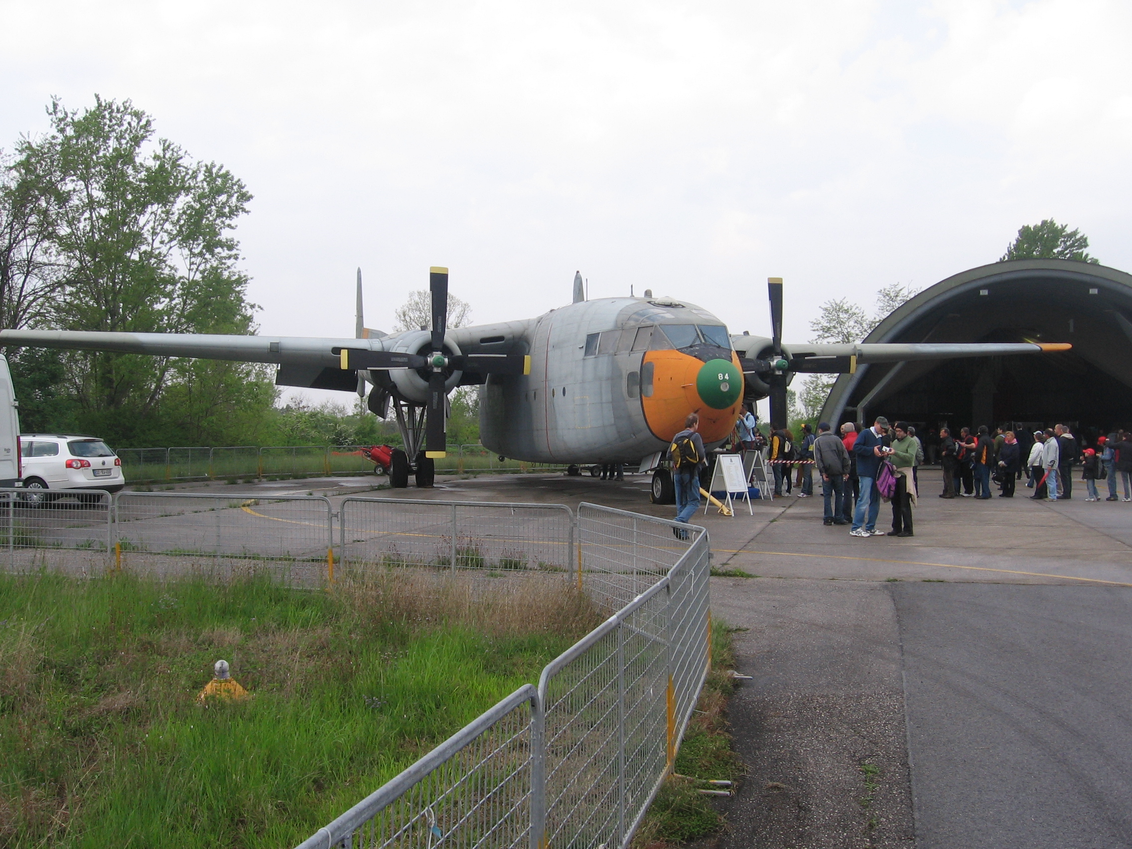 A C119 of Italian Airforce in static display during the opening ceremony of the 2008 acrobatic season of Frecce Tricolori